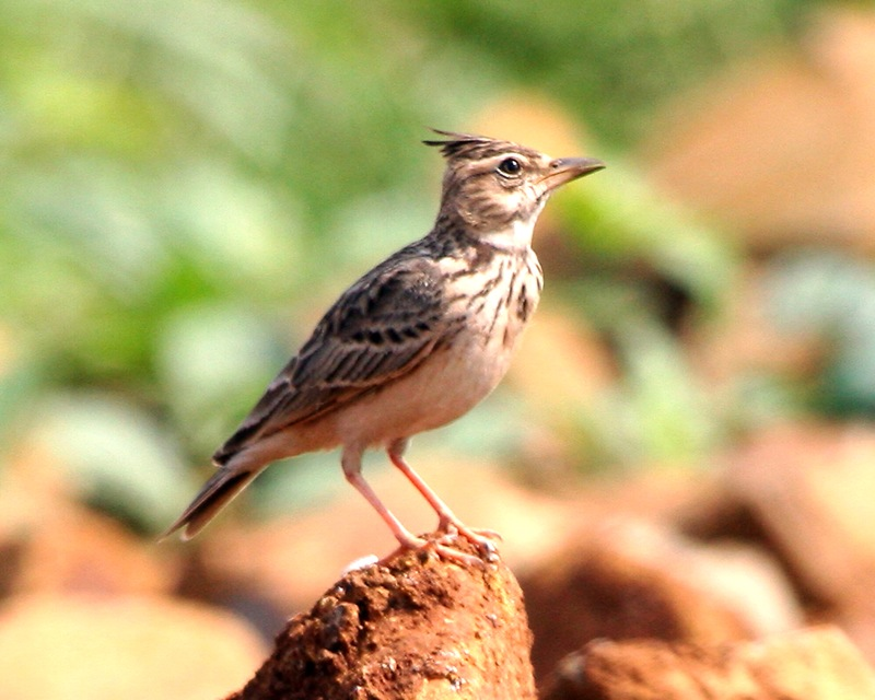 Crested Lark Galerida cristata chendoola aka Alauda Chendoola 25th. September 2005 Uran mudflats, Mahrashtra, India Alt. Names: Indian Crested Lark Distribution